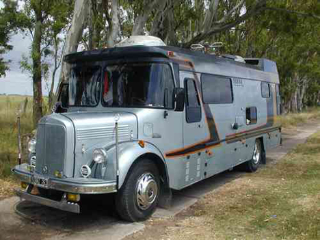 Colectivo Mercedes Motorhome taken in Mendoza. Mercedes Benz LO 3500 colectivo turned motorhome.